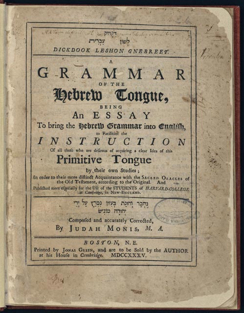 The title page of A Grammar of the Hebrew Tongue published in 1735 by Judah Monis. The first Hebrew grammar published in America was issued in 1735 specifically for "the ... use of the students at Harvard-College at Cambridge, in New-England," for whom Hebrew was a required subject. The author, Judah Monis, had to convert to Christianity to be appointed to the faculty of Harvard College. One thousand copies were printed, a large edition for an early eighteenth-century American publication.